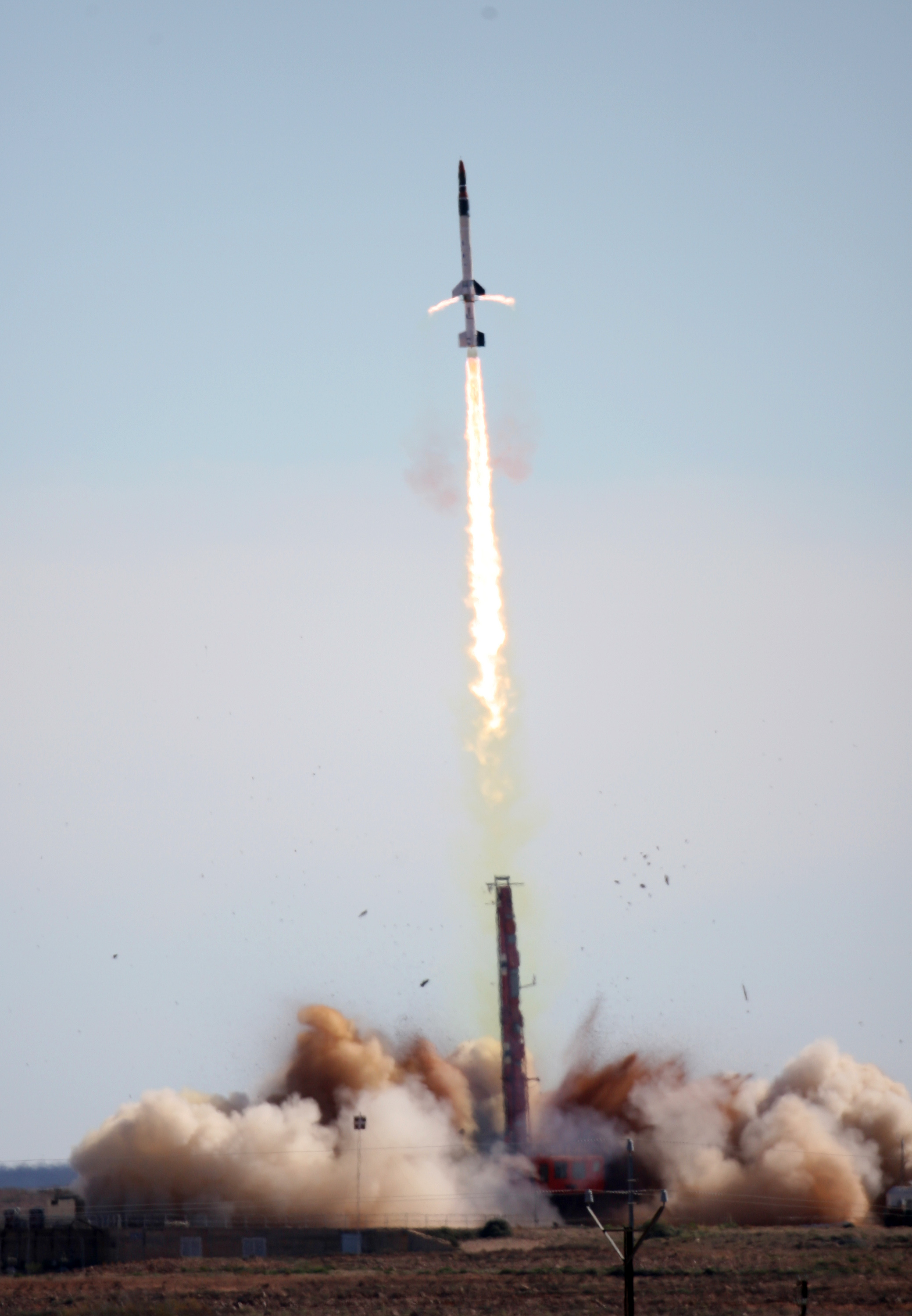 Except where otherwise noted, information presented on the DARPA Web Information Service is considered public information and may be distributed or copied. Use of appropriate byline/photo/image credits is requested.